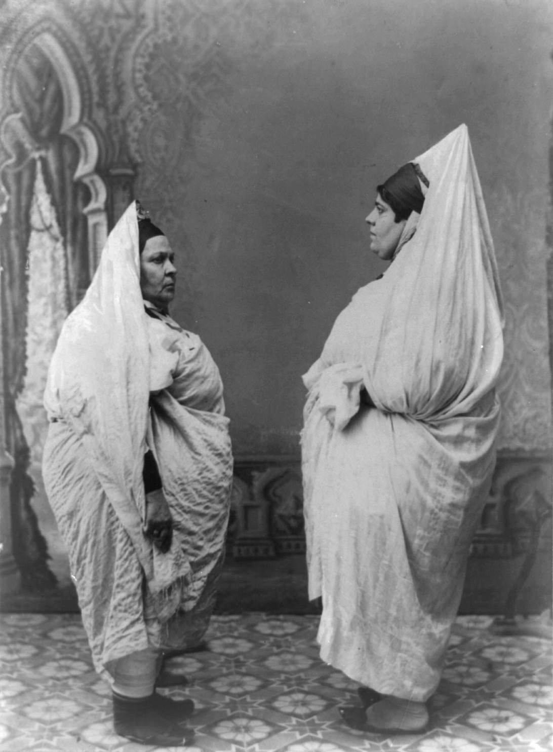 Two Jewish women standing, facing each other, in Tunisia